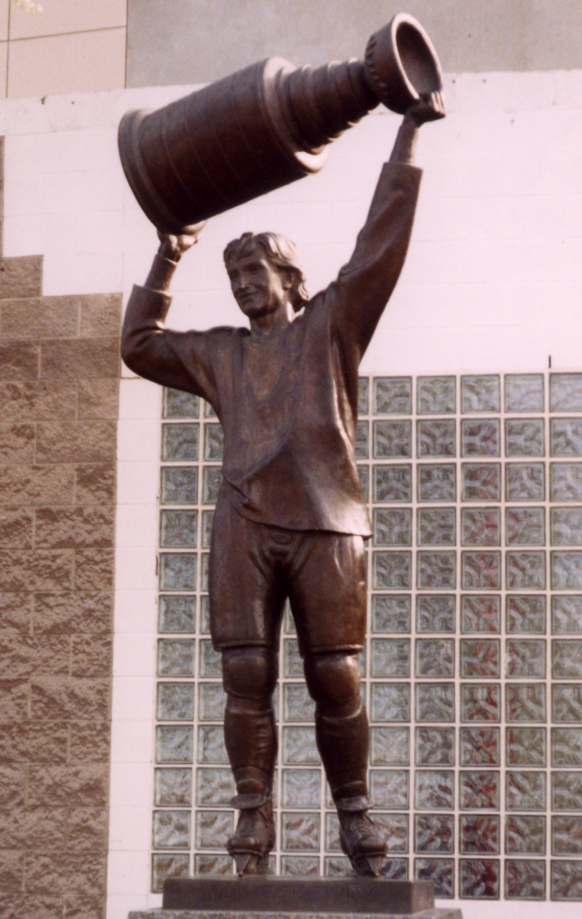 Wayne Gretzky statue erected, after the 1988–89 season, outside of Rexall Place (Edmonton Coliseum). The statue was created by John B. Weaver, for the city of Edmonton when they owned the property in 1989.